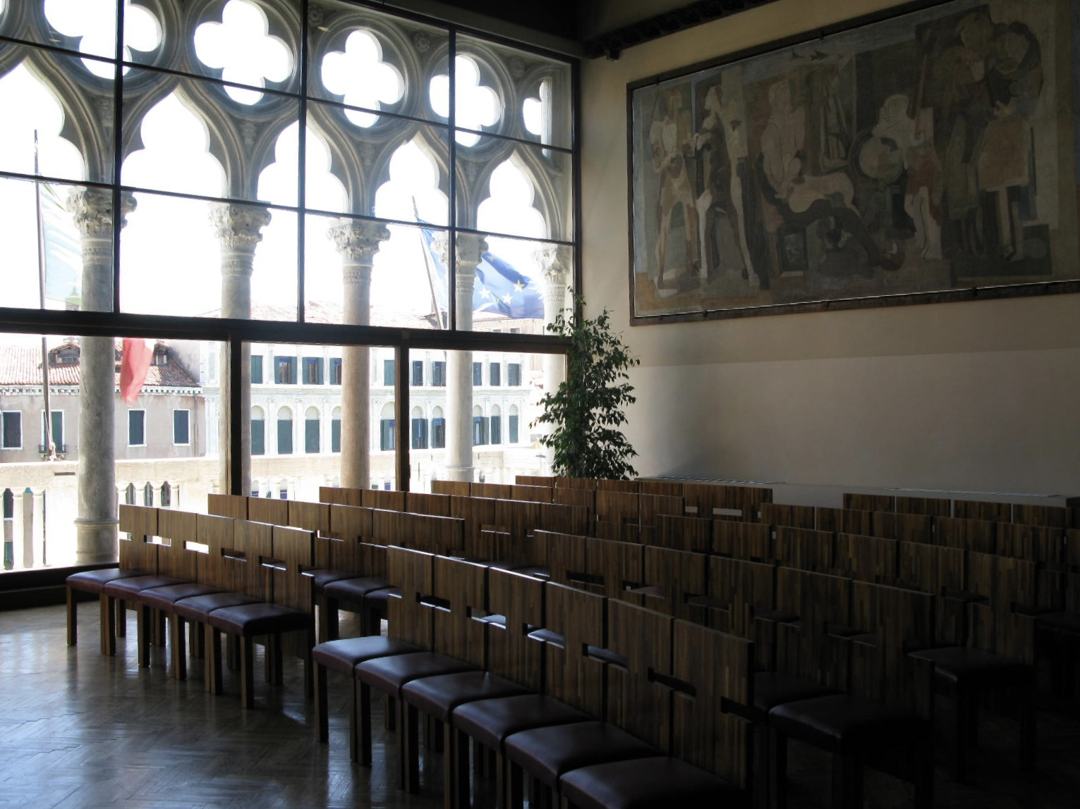 Ca' Foscari: Aula Baratto